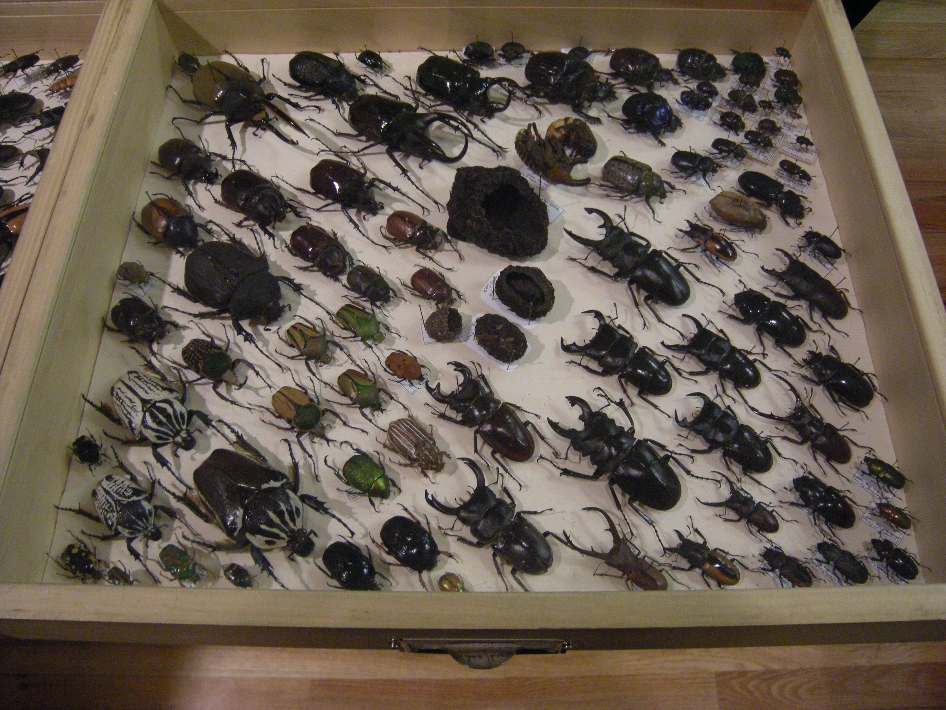 Unidentified beetles. Part of Don Ehlen's Insect Safari collection on display at the Hiawatha Artists Lofts, Seattle, Washington, during a "Bugs and Beer" night.Scarabaeidae and Lucanidae